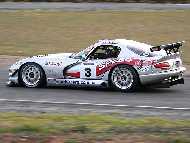 2006 Australian GT Championship season Dodge Viper GTS ACR race car number 3 driven by Greg Crick during Round 5 at Mallala Motor Sport Park